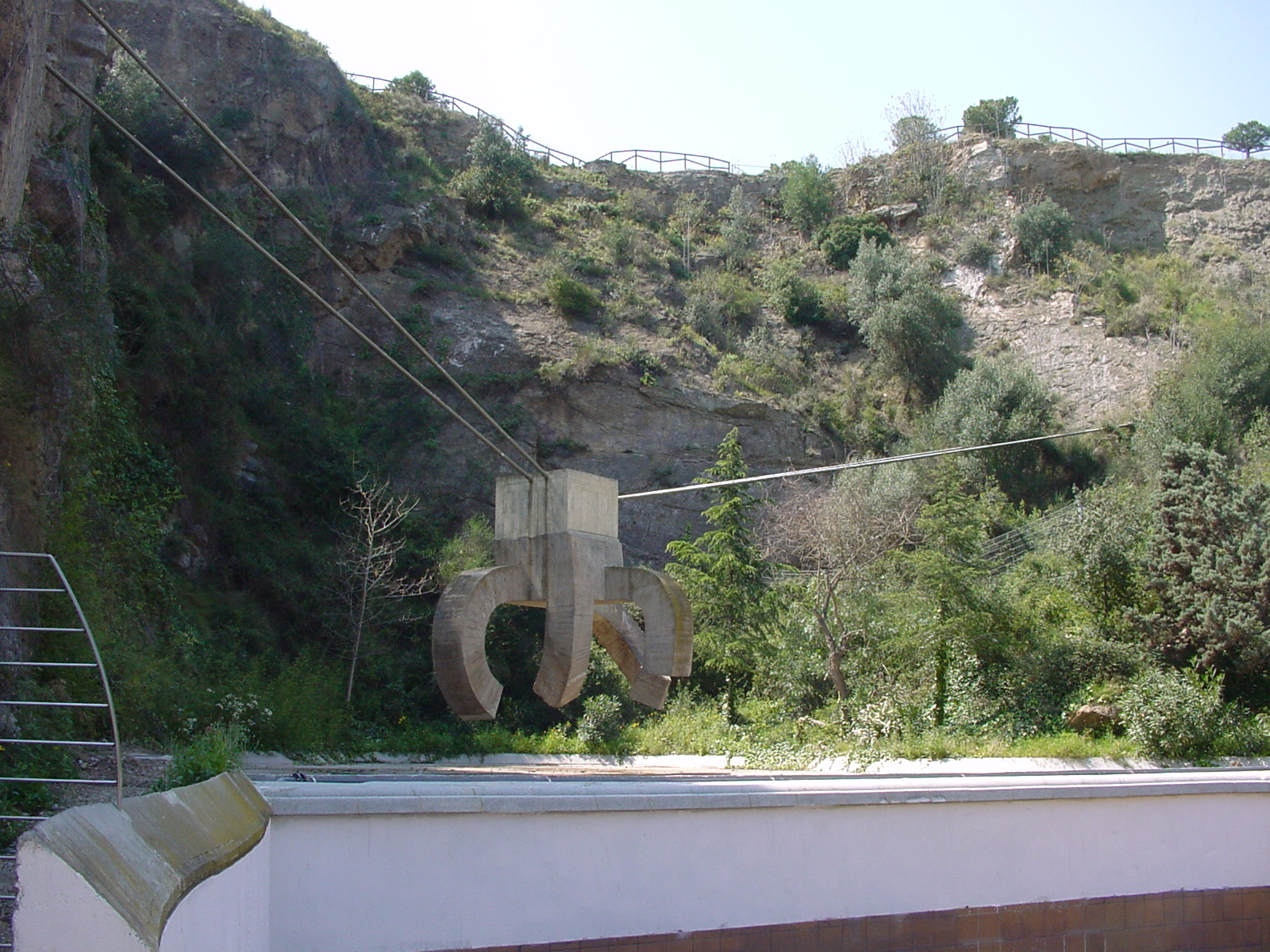 Sculpture 'Elogi a l'Aigua' by Eduardo Chillida. A massive concrete claw suspended by steel cables over a flooded quarry in the Parc de la Creueta del Coll, Barcelona